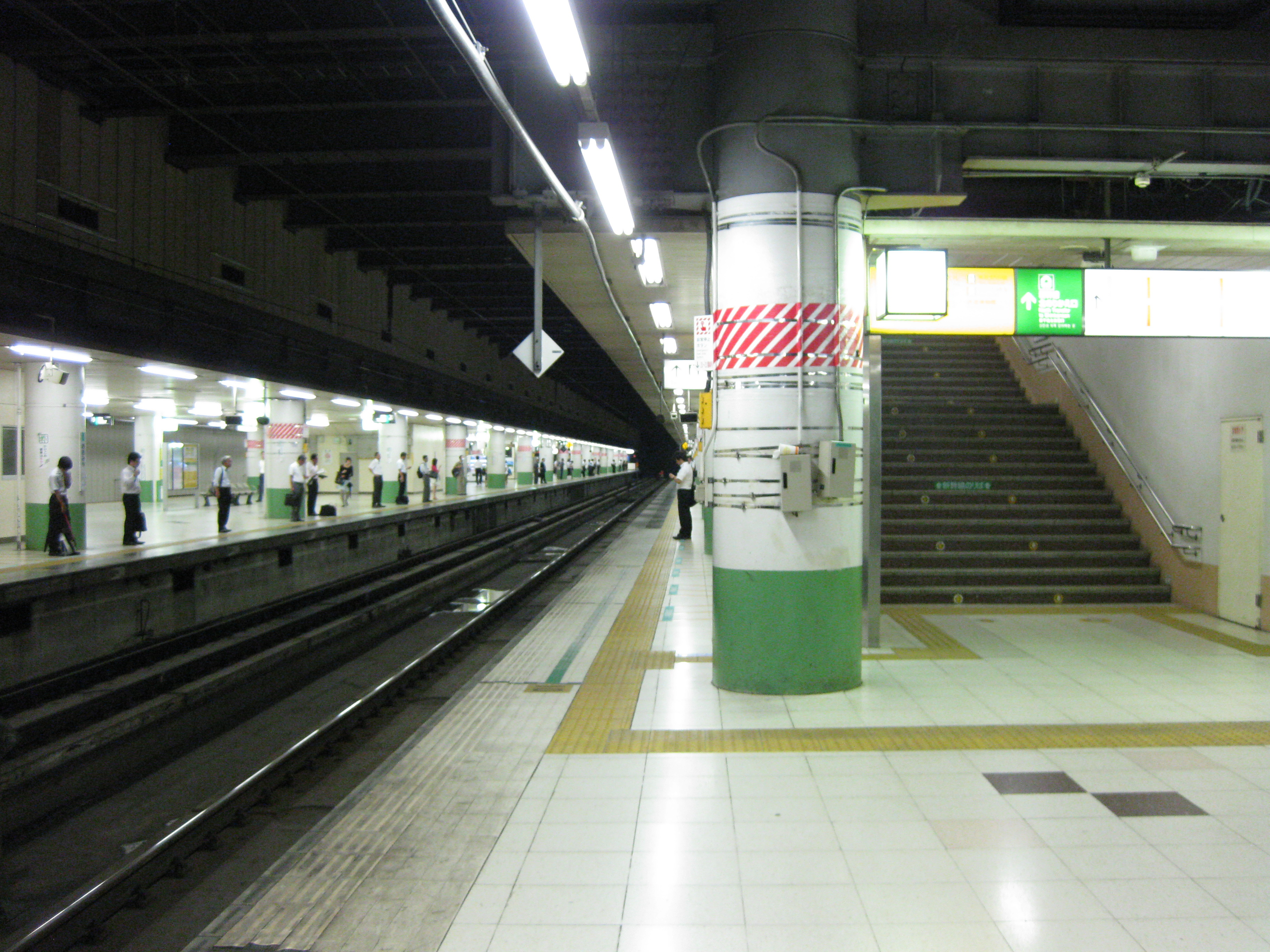 The underground Saikyo/Kawagoe Line platforms at Omiya Station in Saitama, Japan